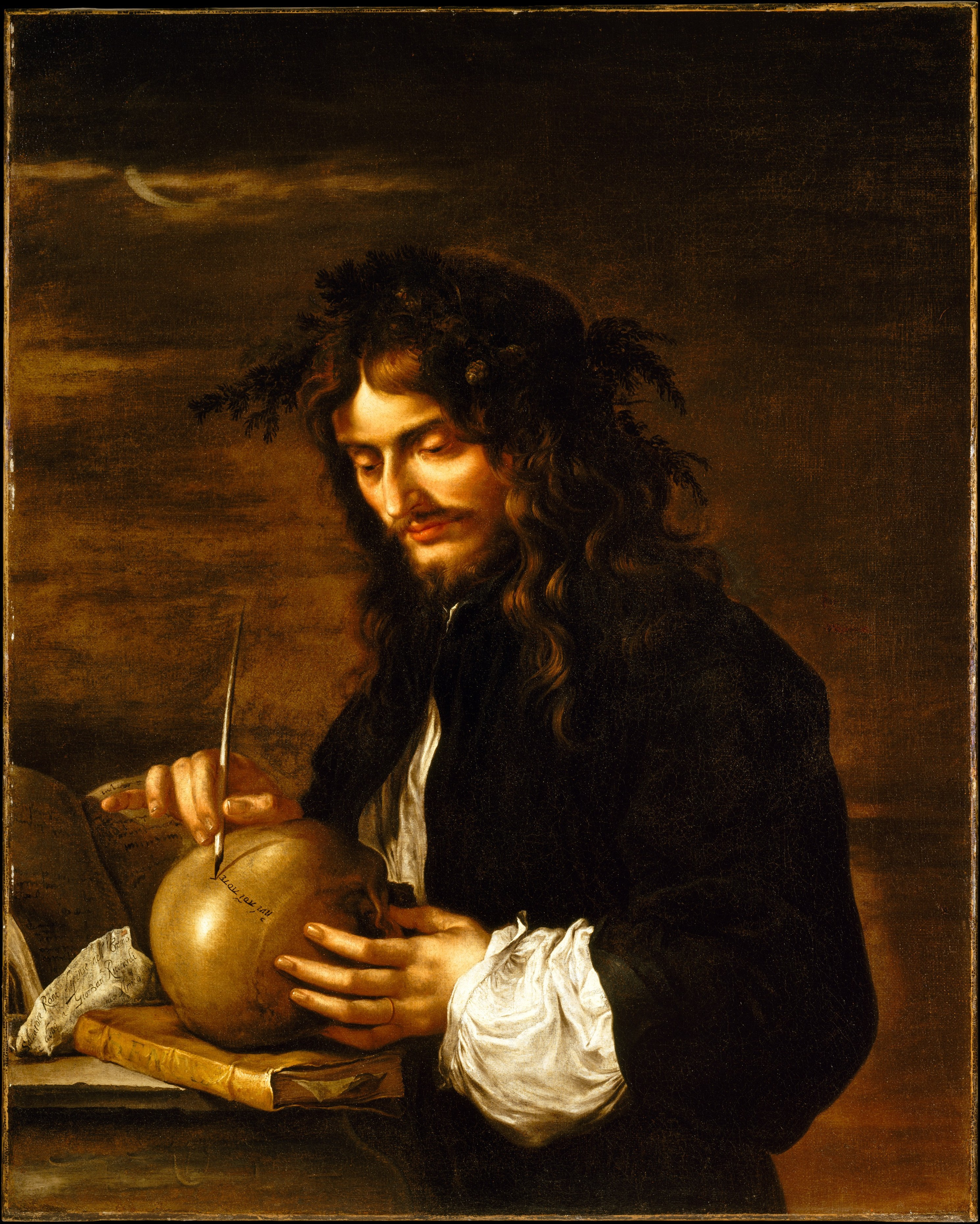 Self-portrait Salvator Rosa (Italian, Arenella (Naples) 1615–1673 Rome) Date: ca. 1647 Medium: Oil on canvas Dimensions: 39 x 31 1/4 in. (99.1 x 79.4 cm) Classification: Paintings Credit Line: Bequest of Mary L. Harrison, 1921 Accession Number: 21.105